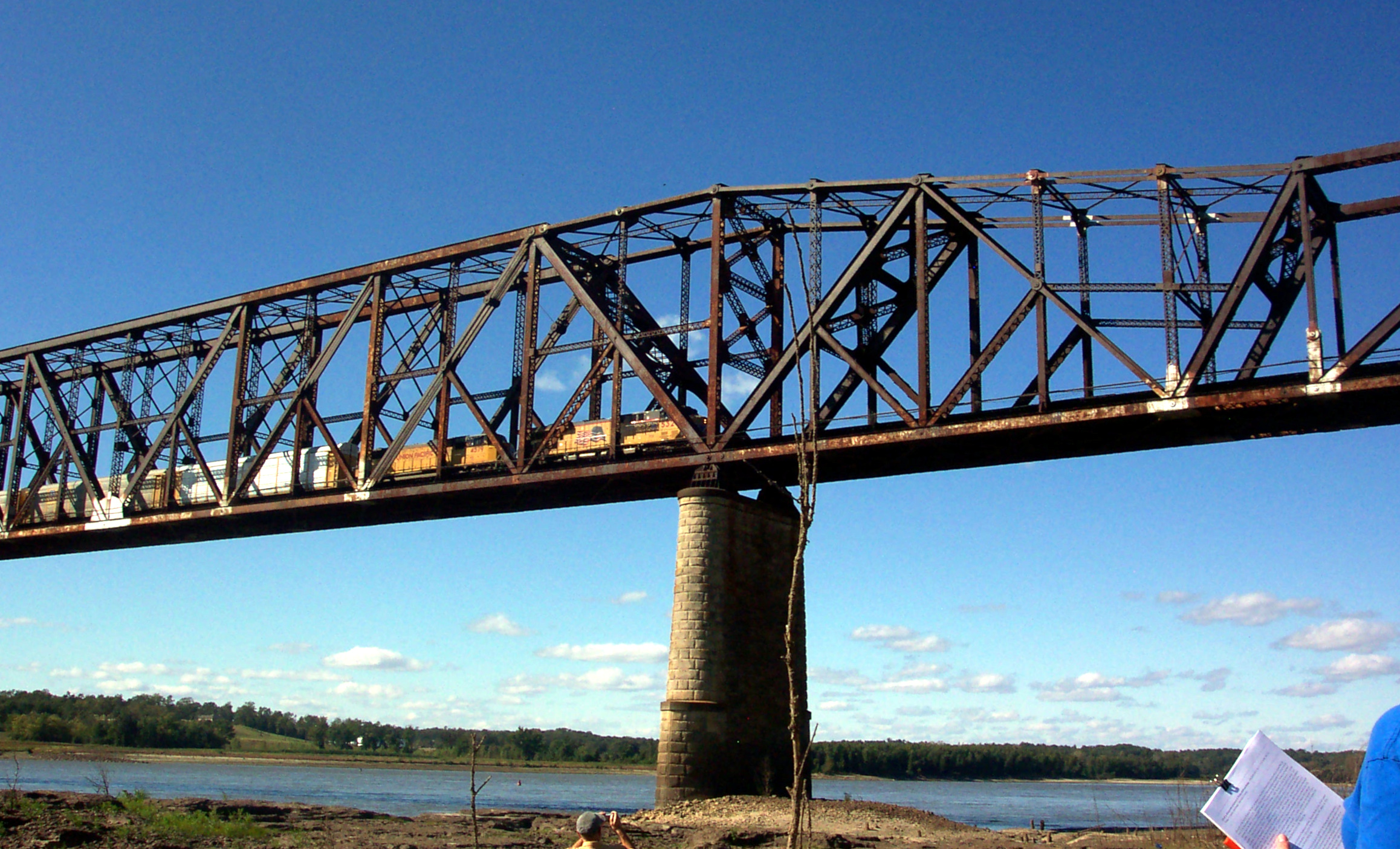 Railroad bridge crossing Mississippi river at Thebes.